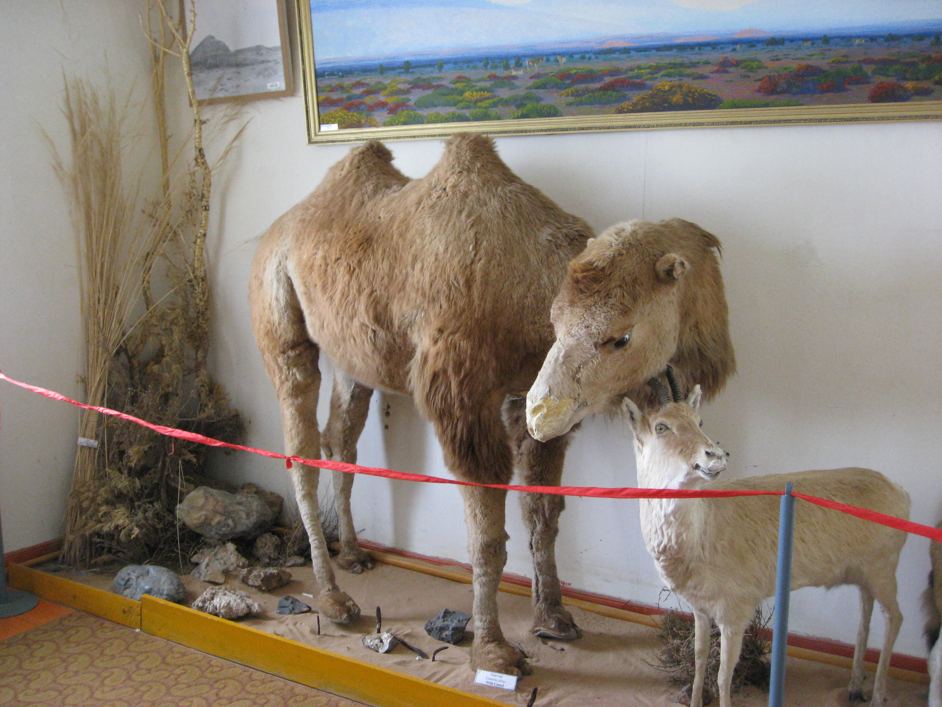 Stuffed Wild Bactrian Camel in a Museum (Mongolia, South Gobi Aimak)